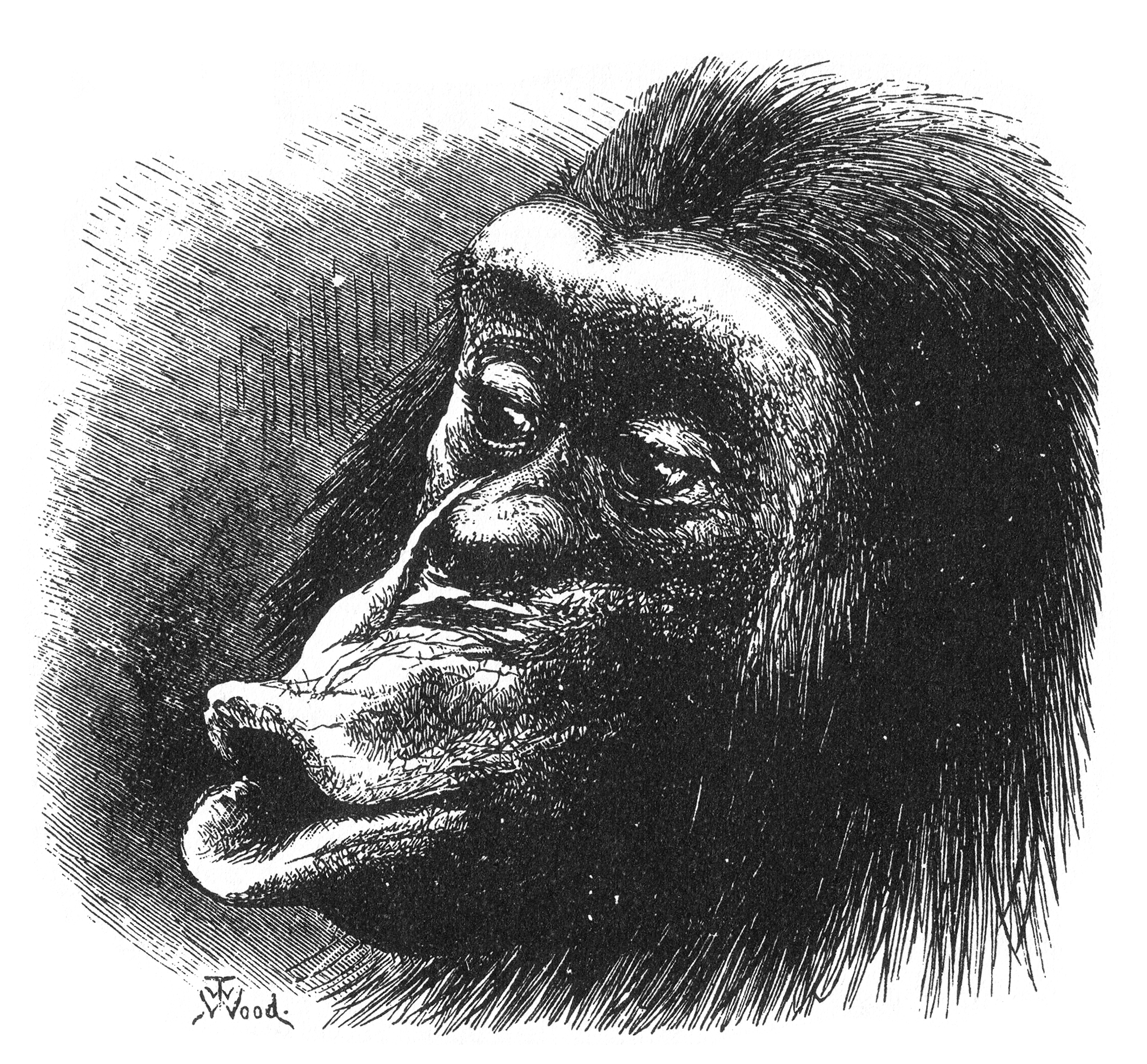 Figure 18 from Charles Darwin's The Expression of the Emotions in Man and Animals. Caption reads "FIG. 18.—Chimpanzee disappointed and sulky. Drawn from life by Mr. Wood." Author's signature is at bottom left. See also figures 9-15 by the same author.